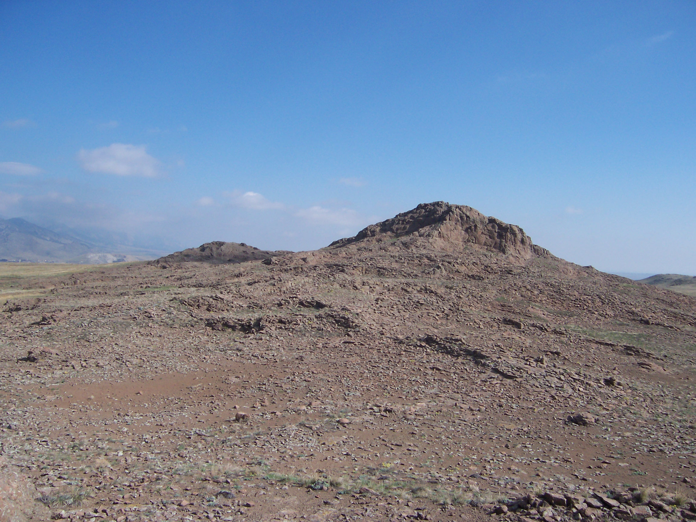 Summit of North Table Mountain. According to this JeffCo Open Space map[1], this is named Lichen Peak and is at 6575 feet.